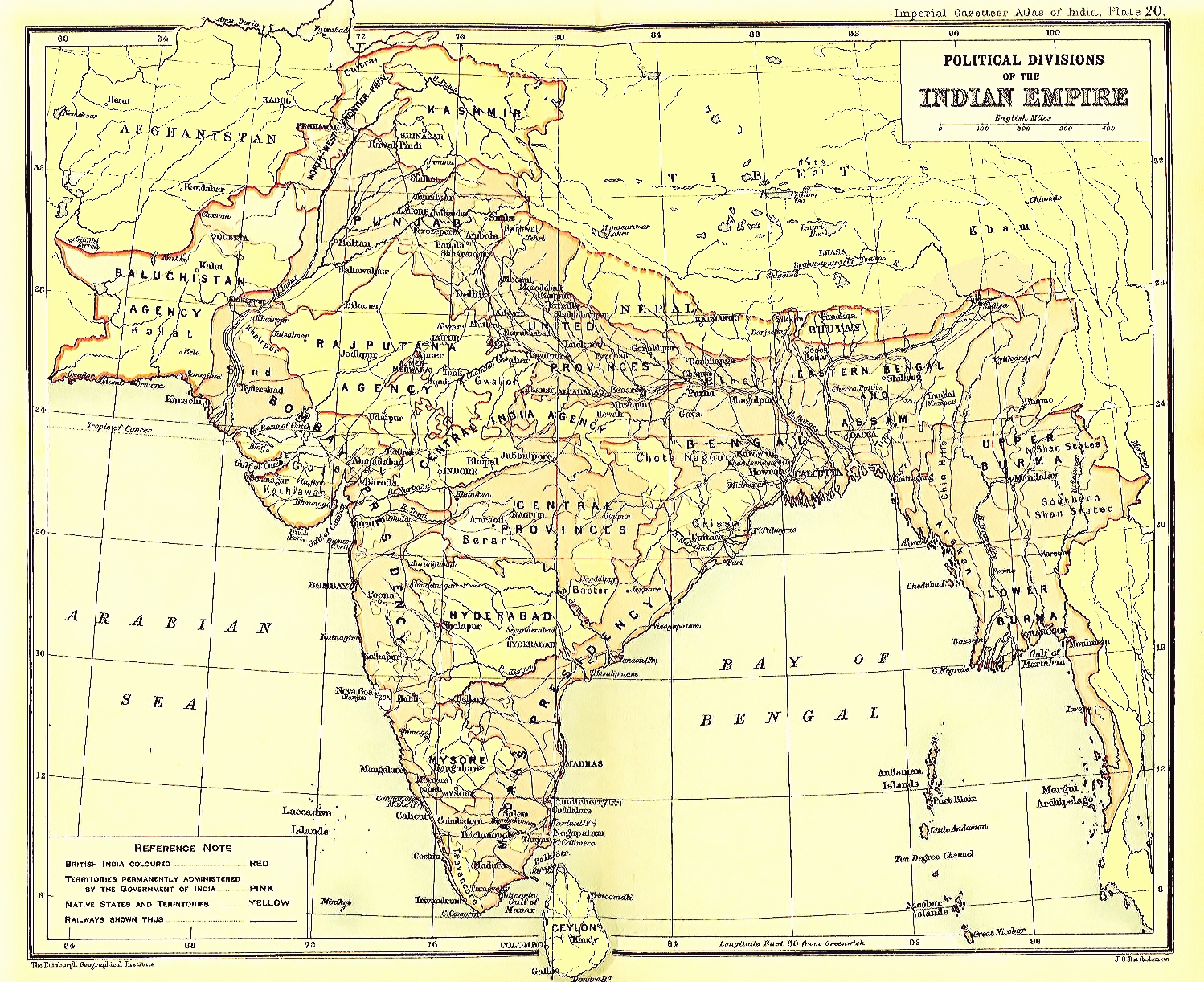 Political Map of East India Empire